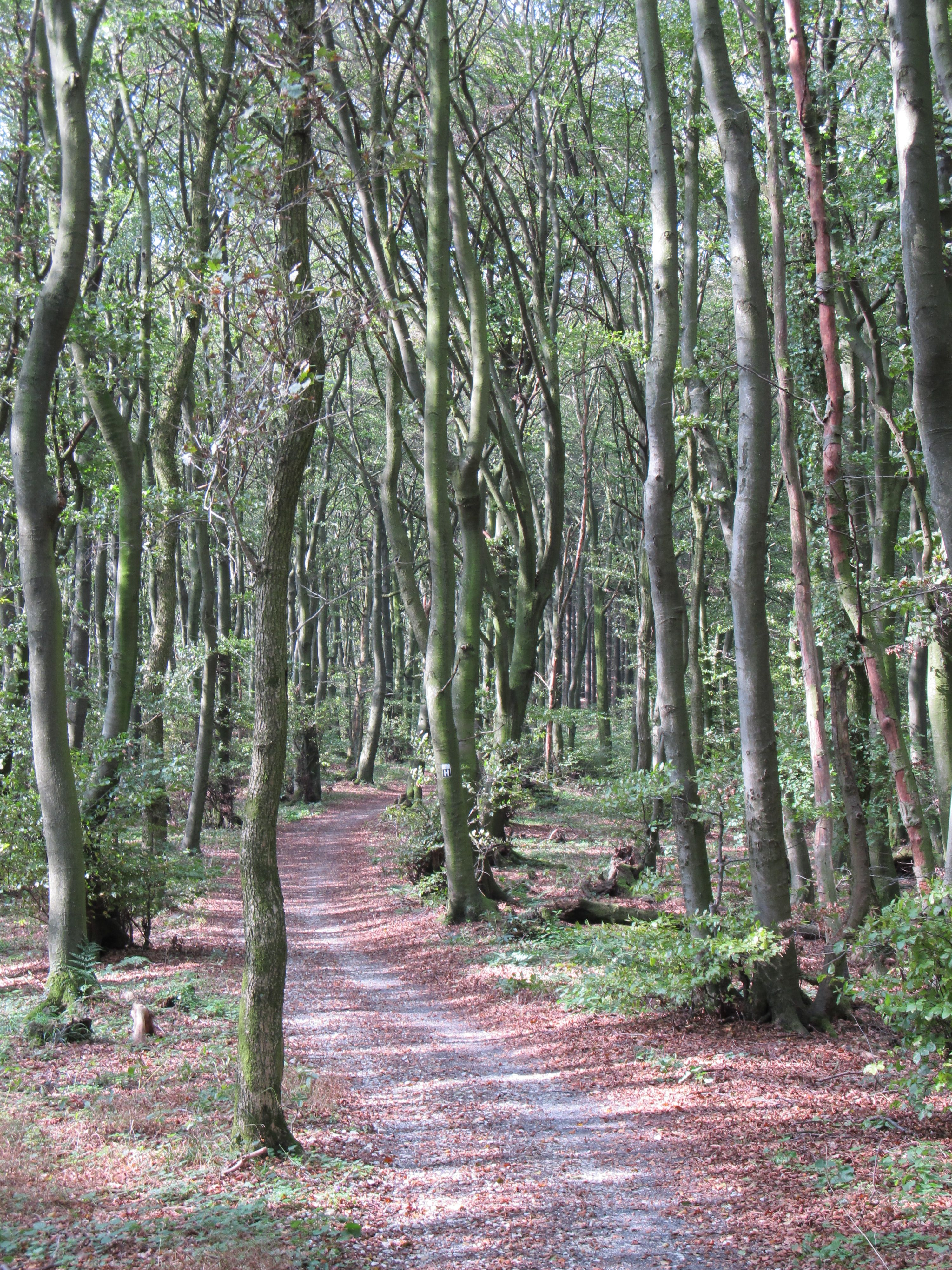 Teutoburg Forest: Walking trail Hermannsweg near Dissen